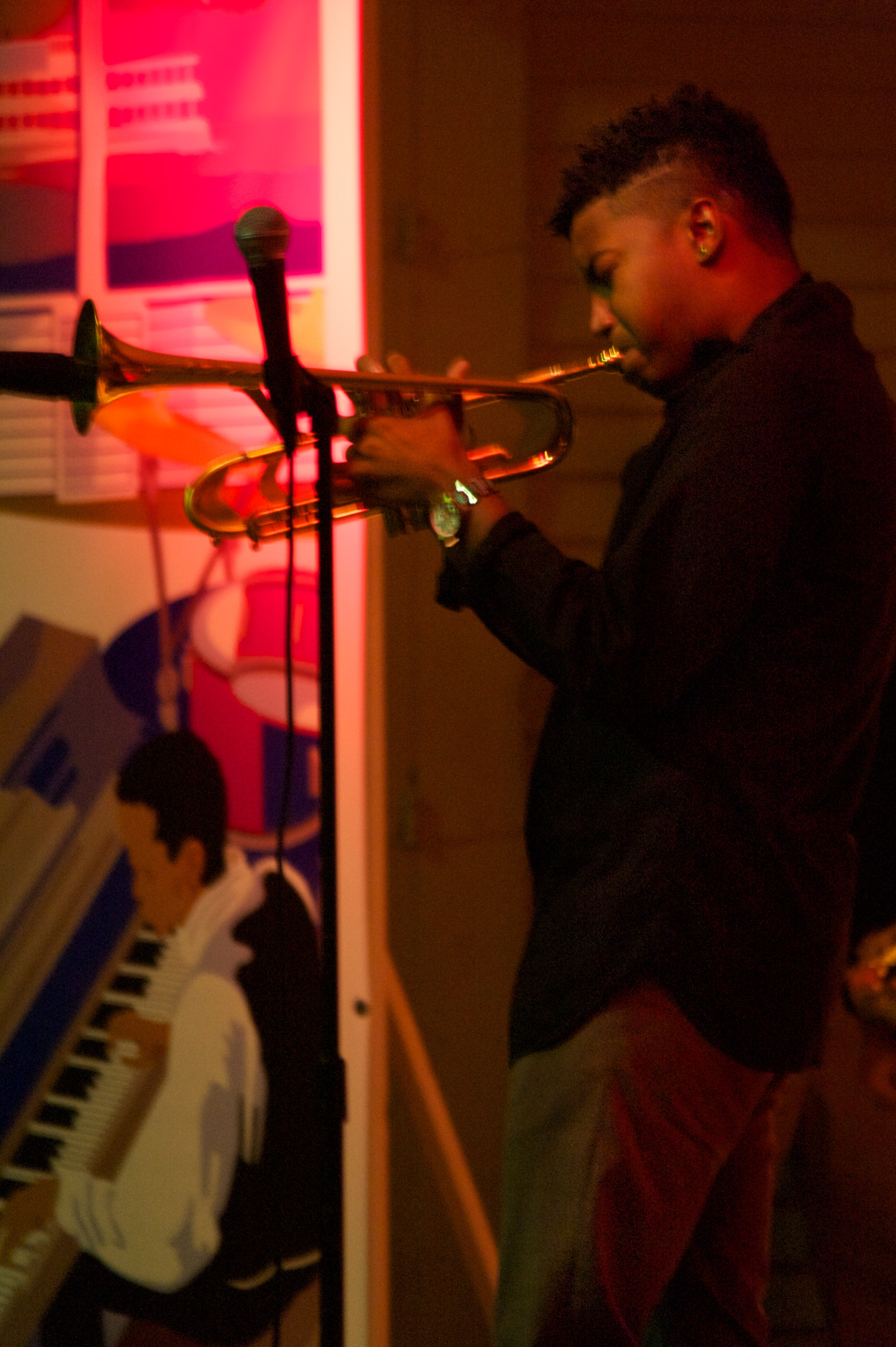 Christian Scott